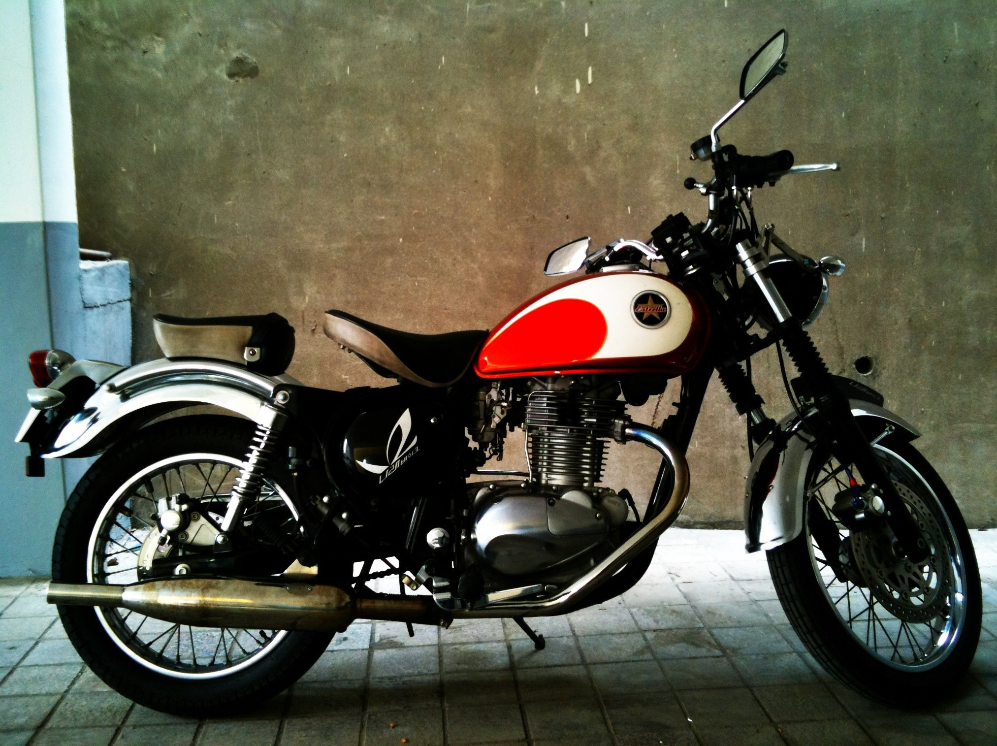 This is a 2007 Kawasaki BJ250 Estrella motorcycle. It was taken in Sangdo-dong, Seoul, Korea on April of 2011.